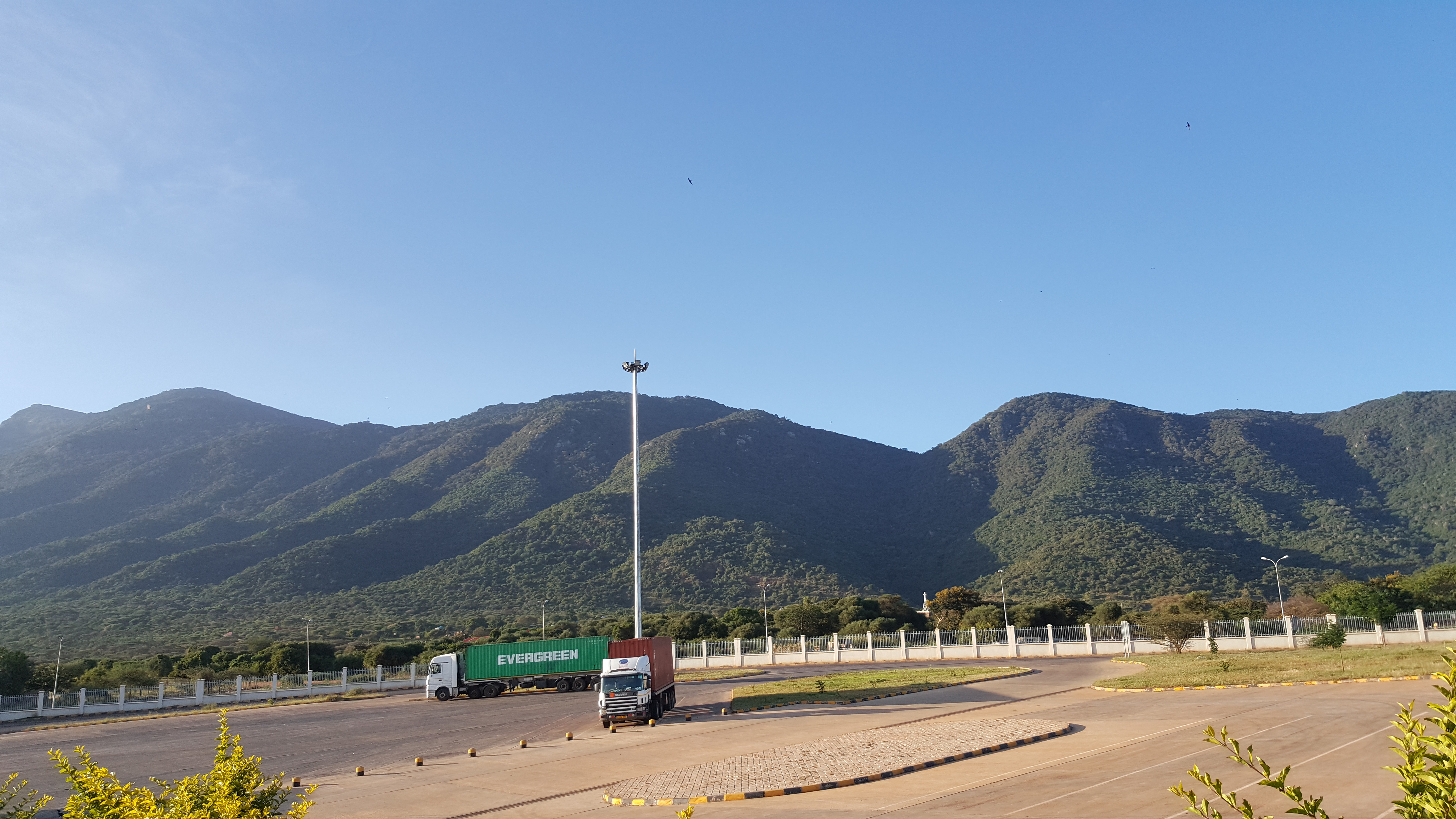 Namanga Border Post. It is 5 pm and only two trucks are left on the queue to Tanzania. Staring from above, is the imposing Ol-Donyo Orok mountain, 2548m above sea level This is an image with the theme "Africa on the Move or Transport" from: Kenya